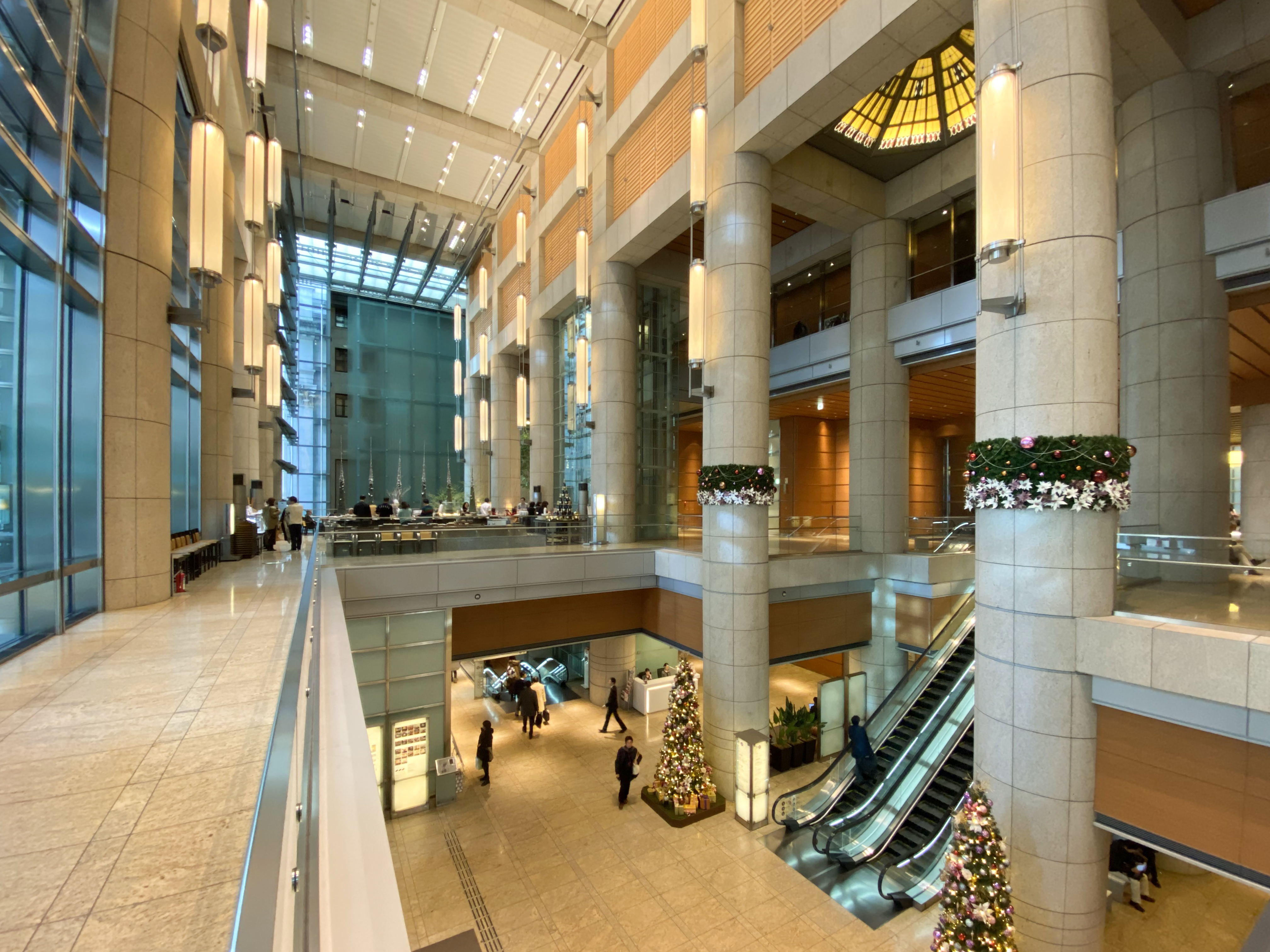 Nihonbashi Mitsui Tower Lobby